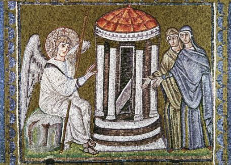 Mosaic in Basilica of Sant'Apollinare Nuovo. Marys at Tomb